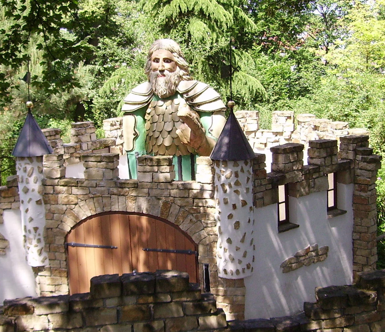 Märchengarten (fairy tale garden), at the Schloss Ludwigsburg Gardens — in Ludwigsburg, Germany.